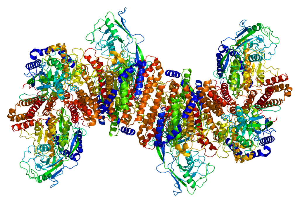 Structure of the TFRC protein. Based on PyMOL rendering of PDB 1cx8.